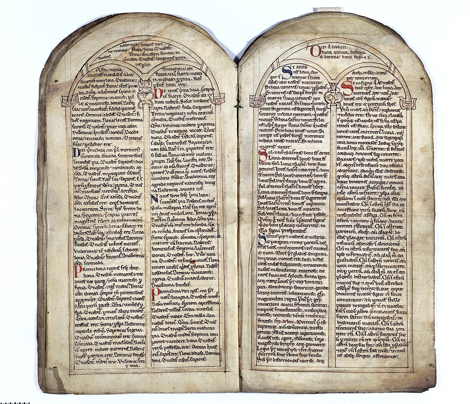 Alchandrus, De naturis planetarum, beginning missing and preceded by a fragment of a text on the planets The Alchandreana texts were the first Arabic astrological treatises to be translated into Latin in the tenth century. See David Juste, Les Alchandreana primitifs: Étude sur les plus anciens traités astrologiques latins d'origine arabe (Xe siècle) (Leiden: Brill, 2007). (begins imperfectly) '...ipsa erit quasi humida…[first complete entry f. 1r col. 1] Saturnus in quo signo....De naturis planetarum. Luna nature frigide coloris argentei...' Written on vellum, unbound. Beginning and end missing. Lower outer corner of last leaf torn away. The upper margin has been cut into a semi-circular shape. As the manuscript both begins and ends imperfectly, it clear that this is either one quire of a longer work, or that an outer bifolium or set of bifolia were removed at some stage. Written in a small gothic hand, in double column of 53-55 lines to a column, between red and black rules in the design of Norman arches with two large and one small light at the top. The top light contains a few lines of text belonging to the first column. Initials in alternate blue and red, headings in red. Illustrated on fol. 4 with a diagram of five interlocking circles in red, green and black, containing Roman letters and numerals; and on fol. 7v with the Spheres of Pythagoras' in red and black. Archives & Manuscripts Keywords: Fortune telling; mathematica; ms 21; western manuscripts; Physiognomy; Astrology